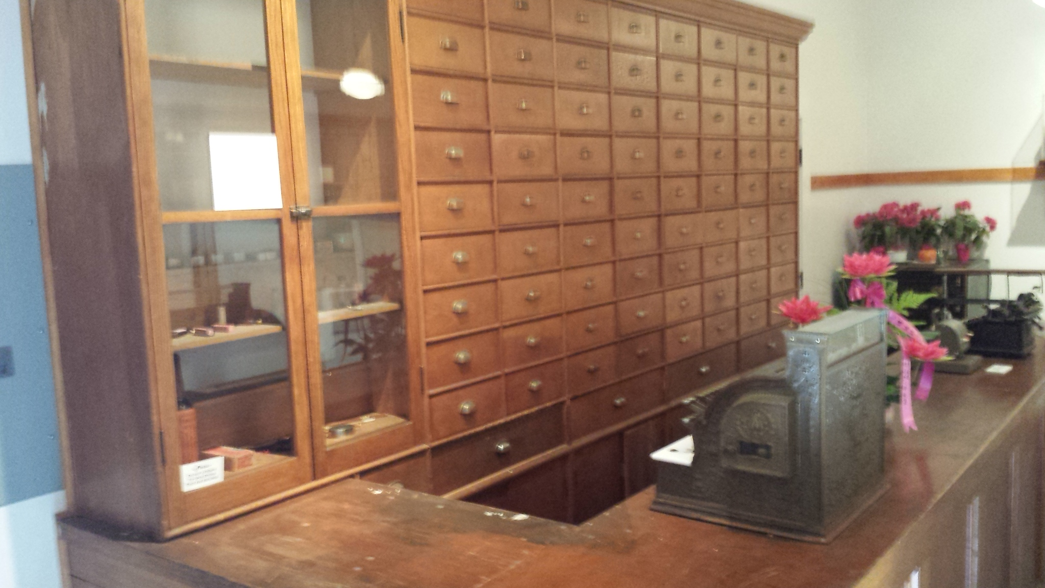 William Collins, photo